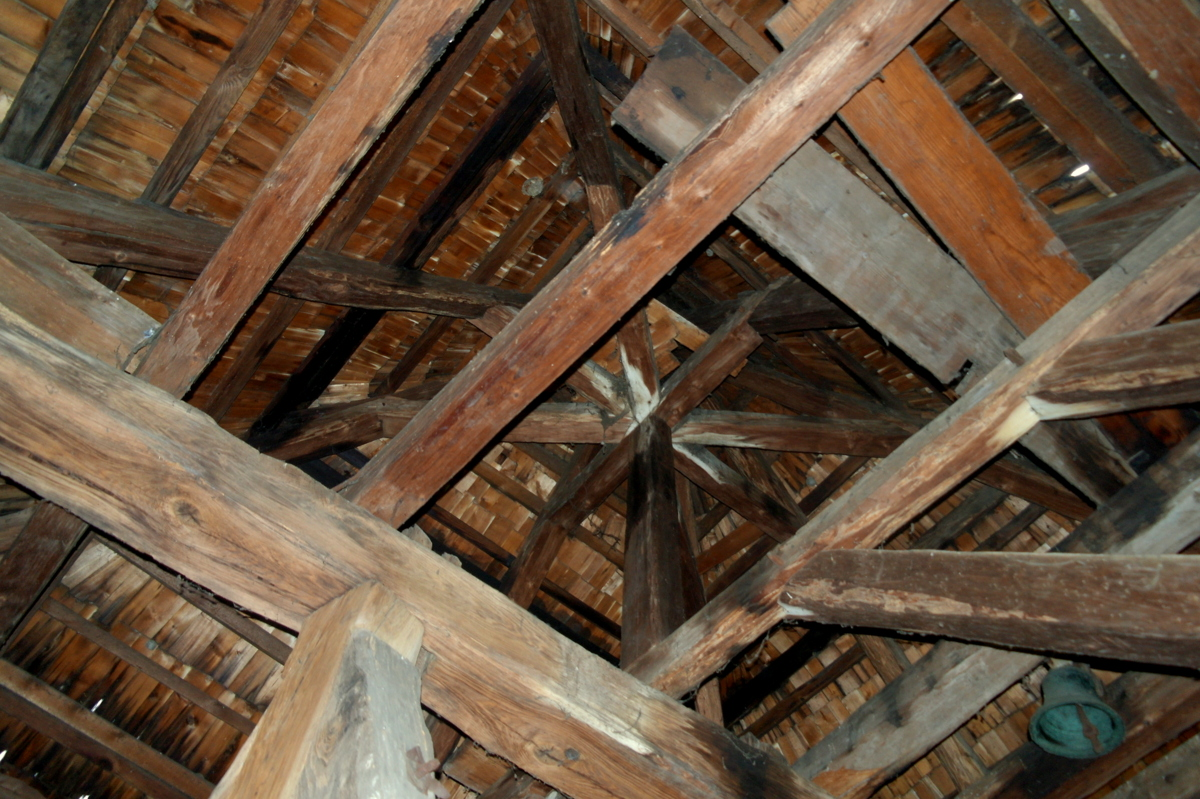 Bell tower in front of the church of John the Baptist, Obříství Castle, 1, 2 Svatopluka Čecha str. Obříství Mělník Distict. Interior. View of the beams under the roof. There hangs the smallest bell, called the death knell.